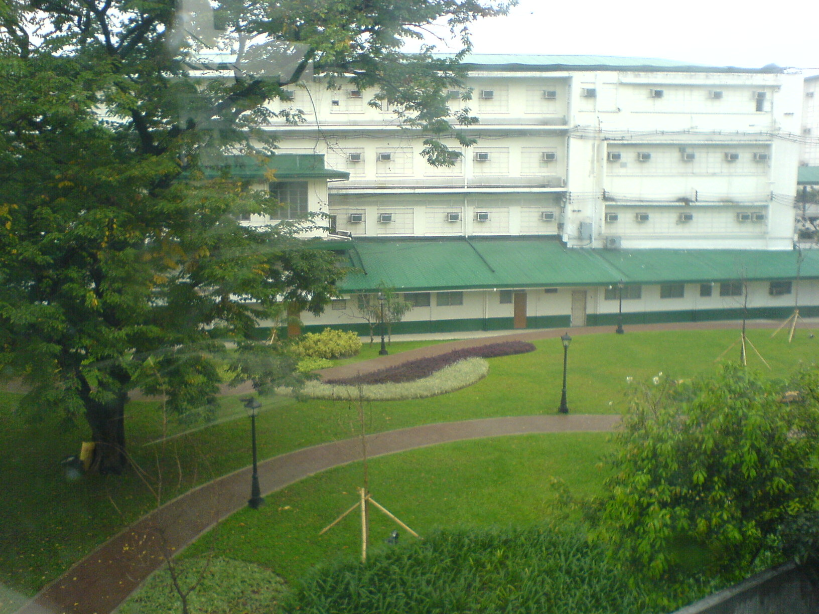 Tan Yan Kee and SFC building at University of the East, Metro Manila, Philippines